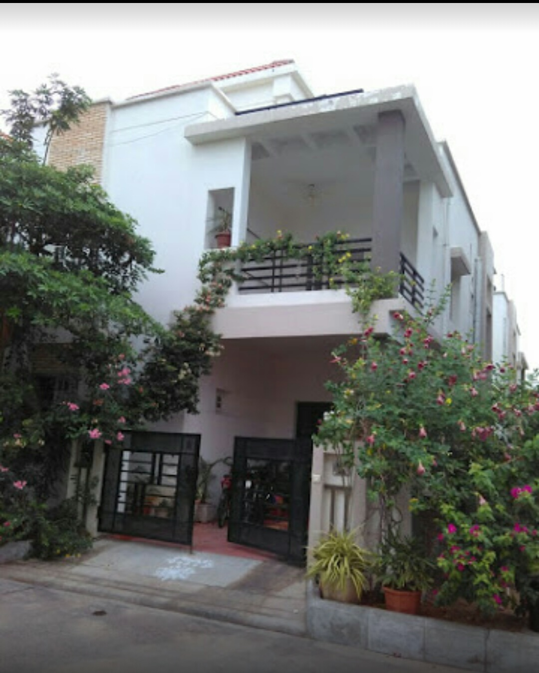 SRR Pride villas